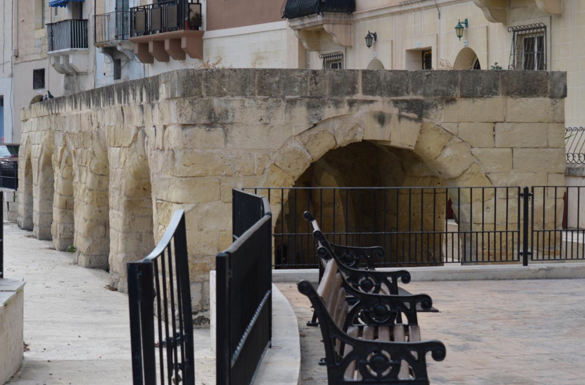 Wash-house This media is about Maltese cultural property with inventory number 00018.